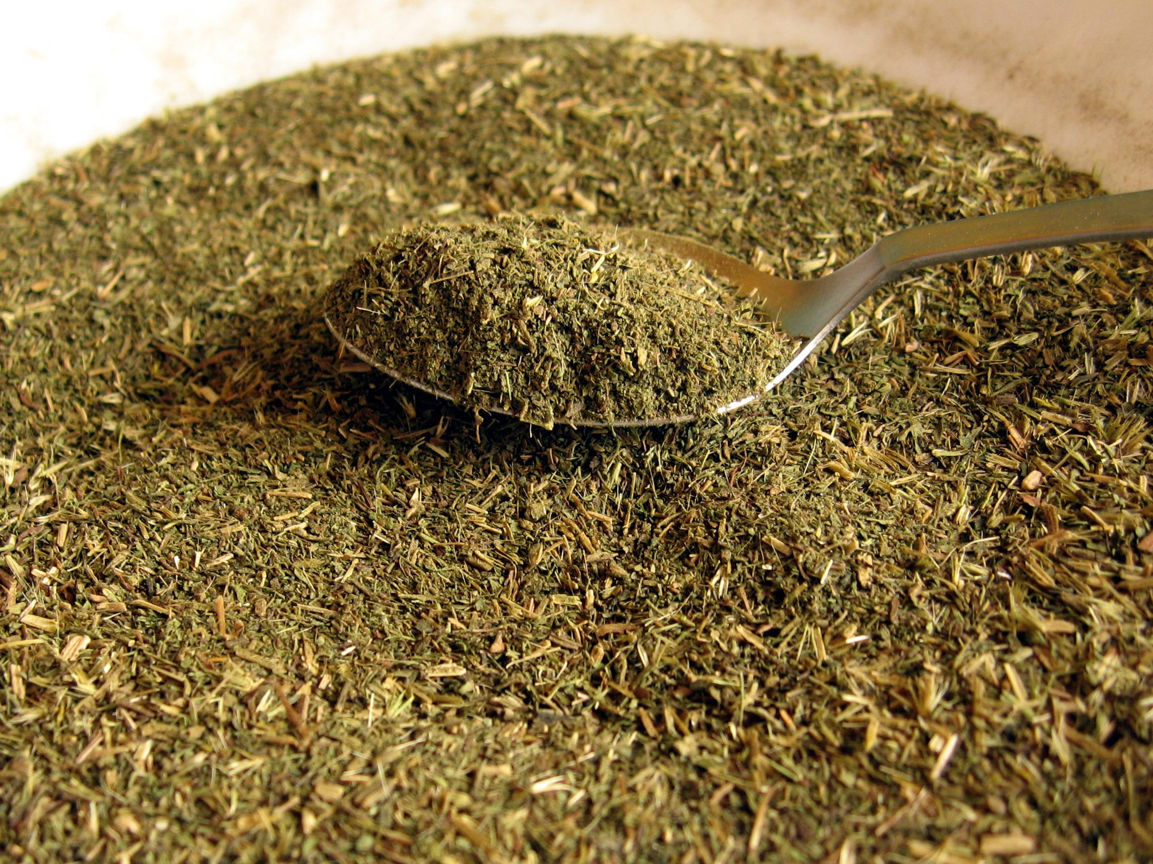 Stevia leaf powder, with teaspoon